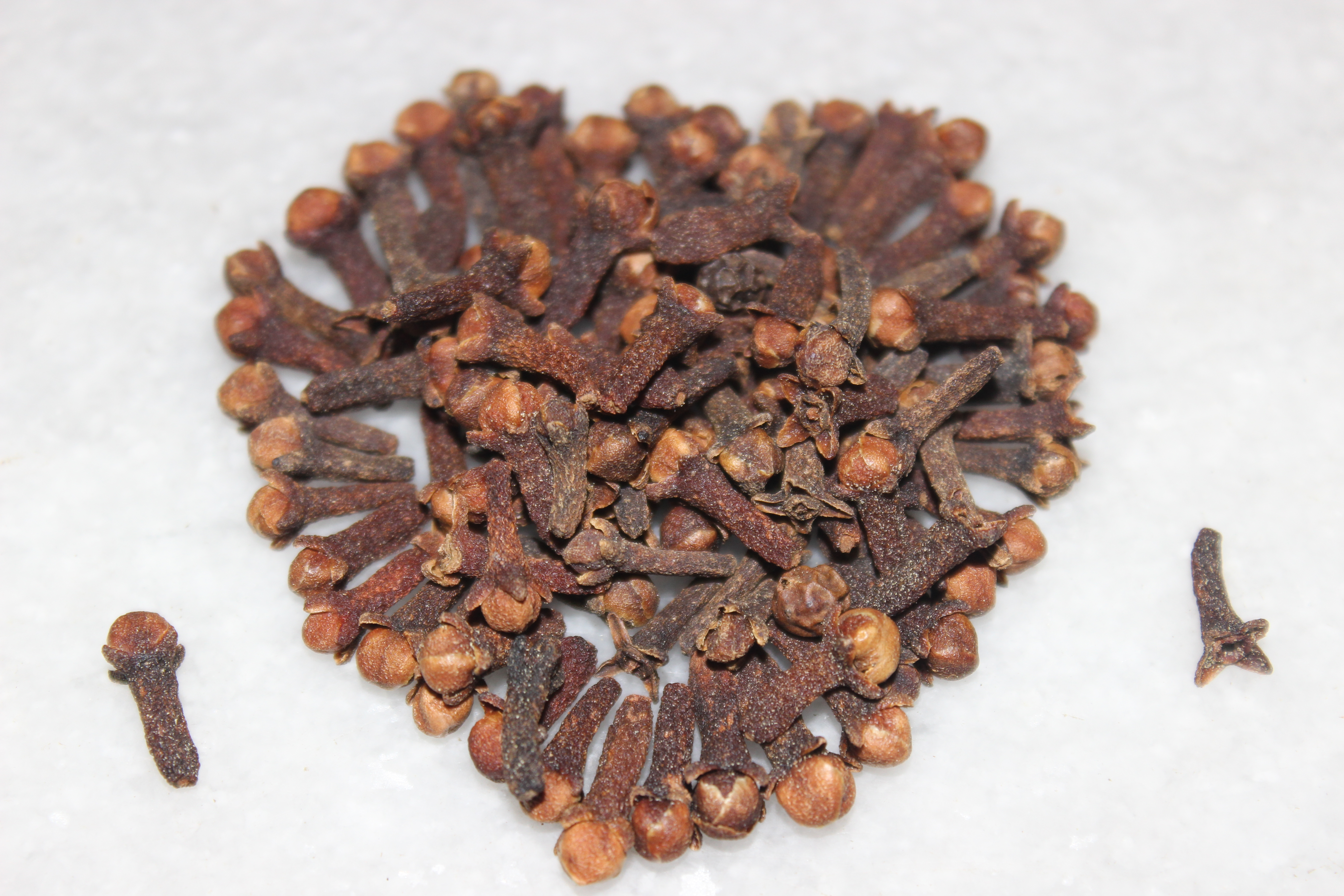 Lavangamu